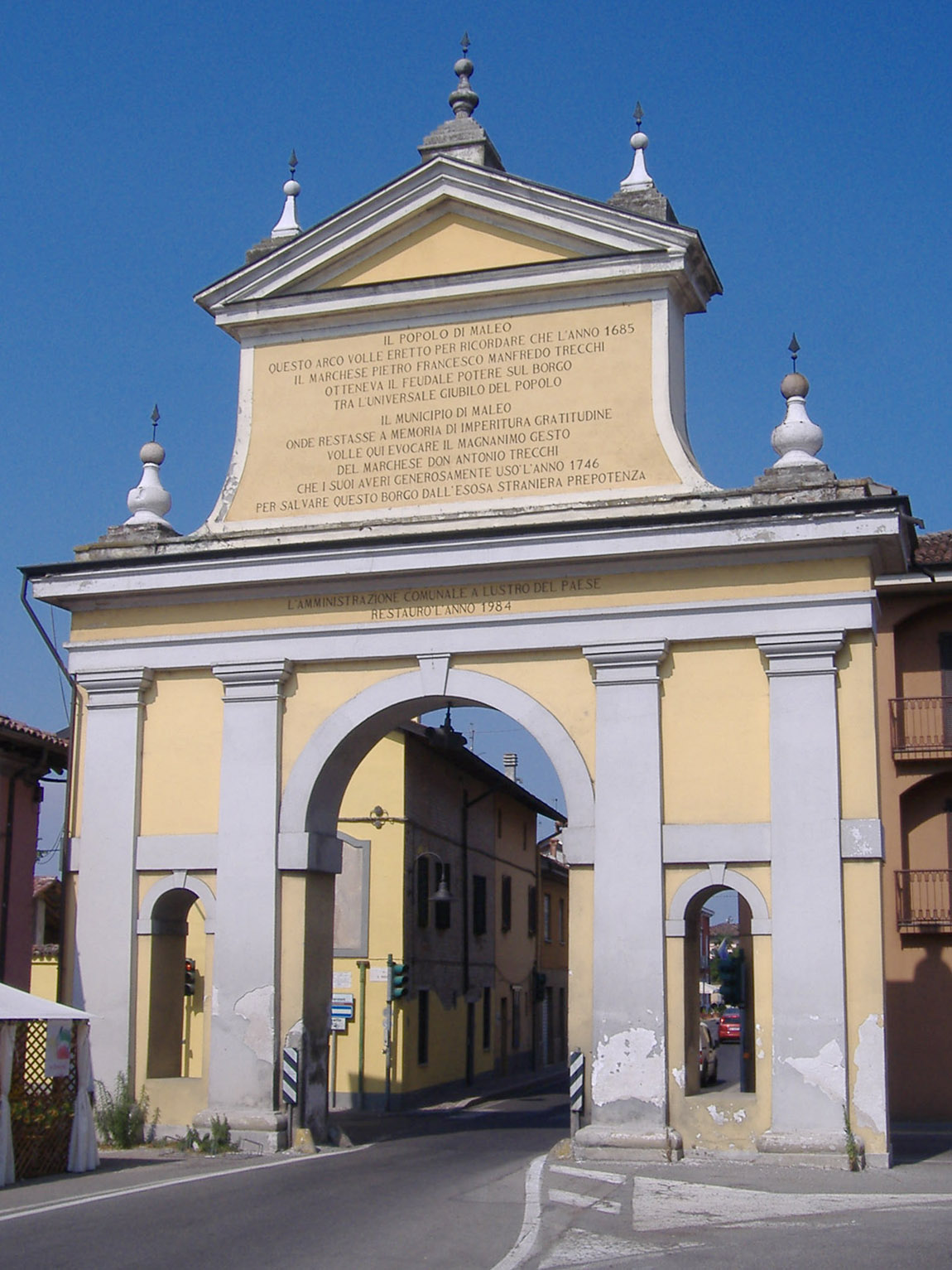 The Trecchi Arc in Maleo, Italy